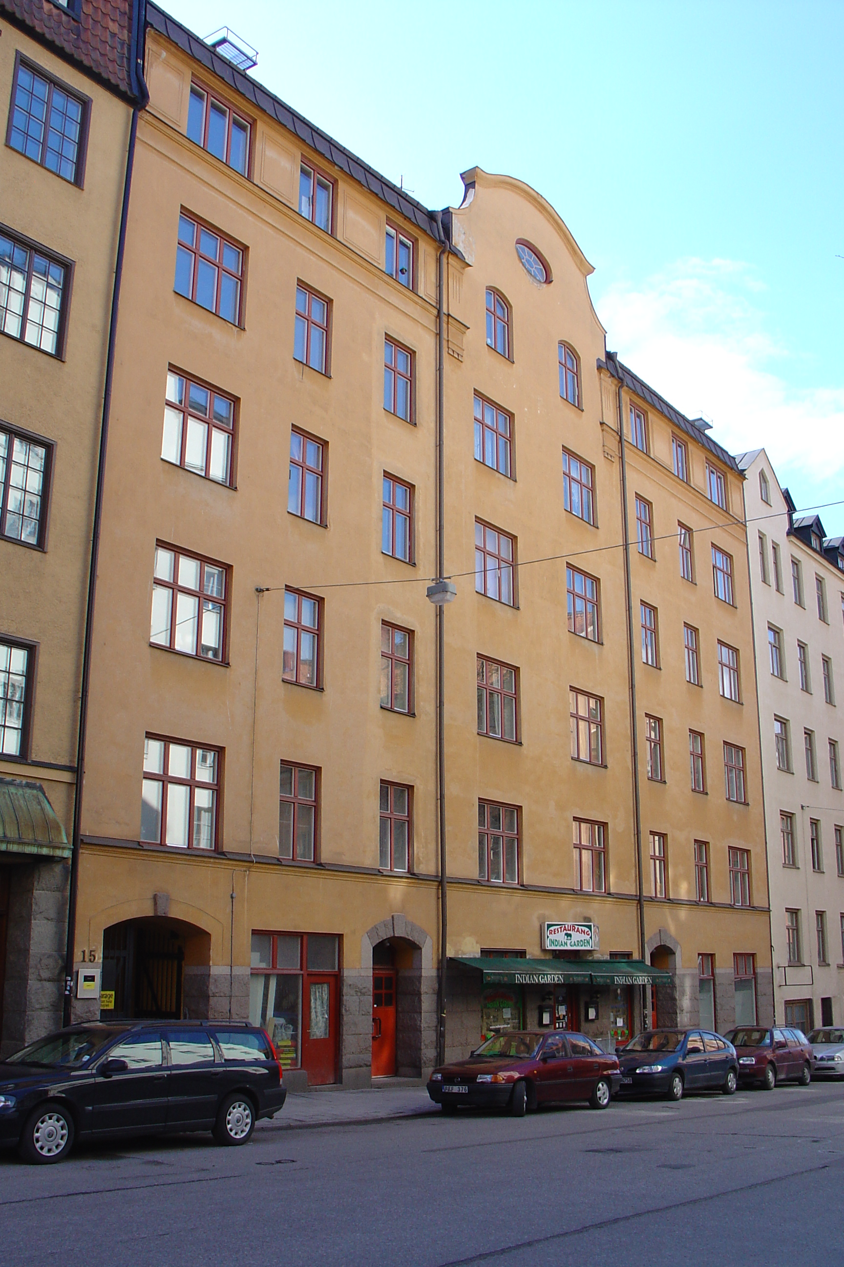 The former brewery Hembryggeriet in Stockholm (address Heleneborgsgatan 15)